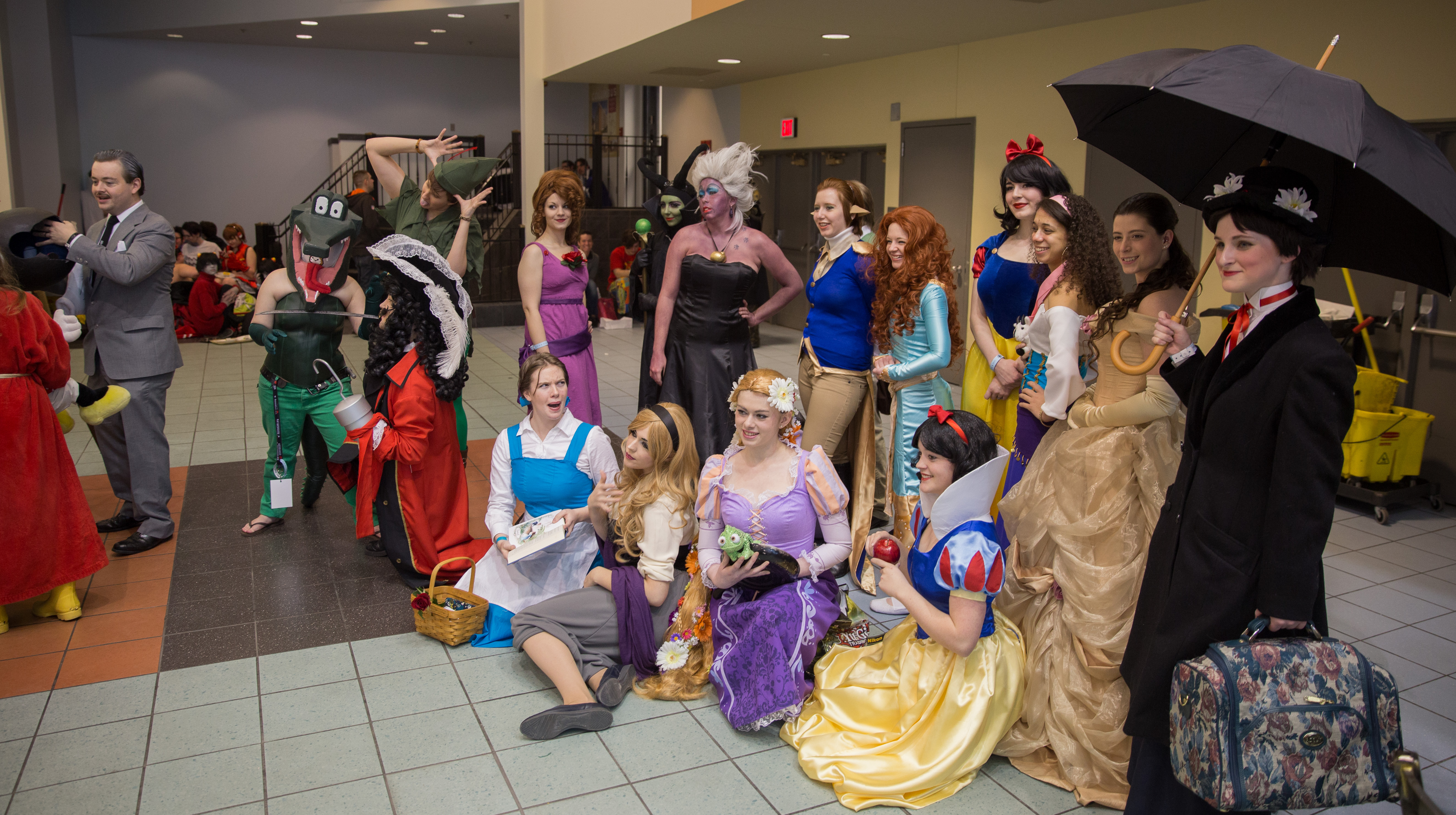 Largest collection of Disney characters I've seen in one spot.